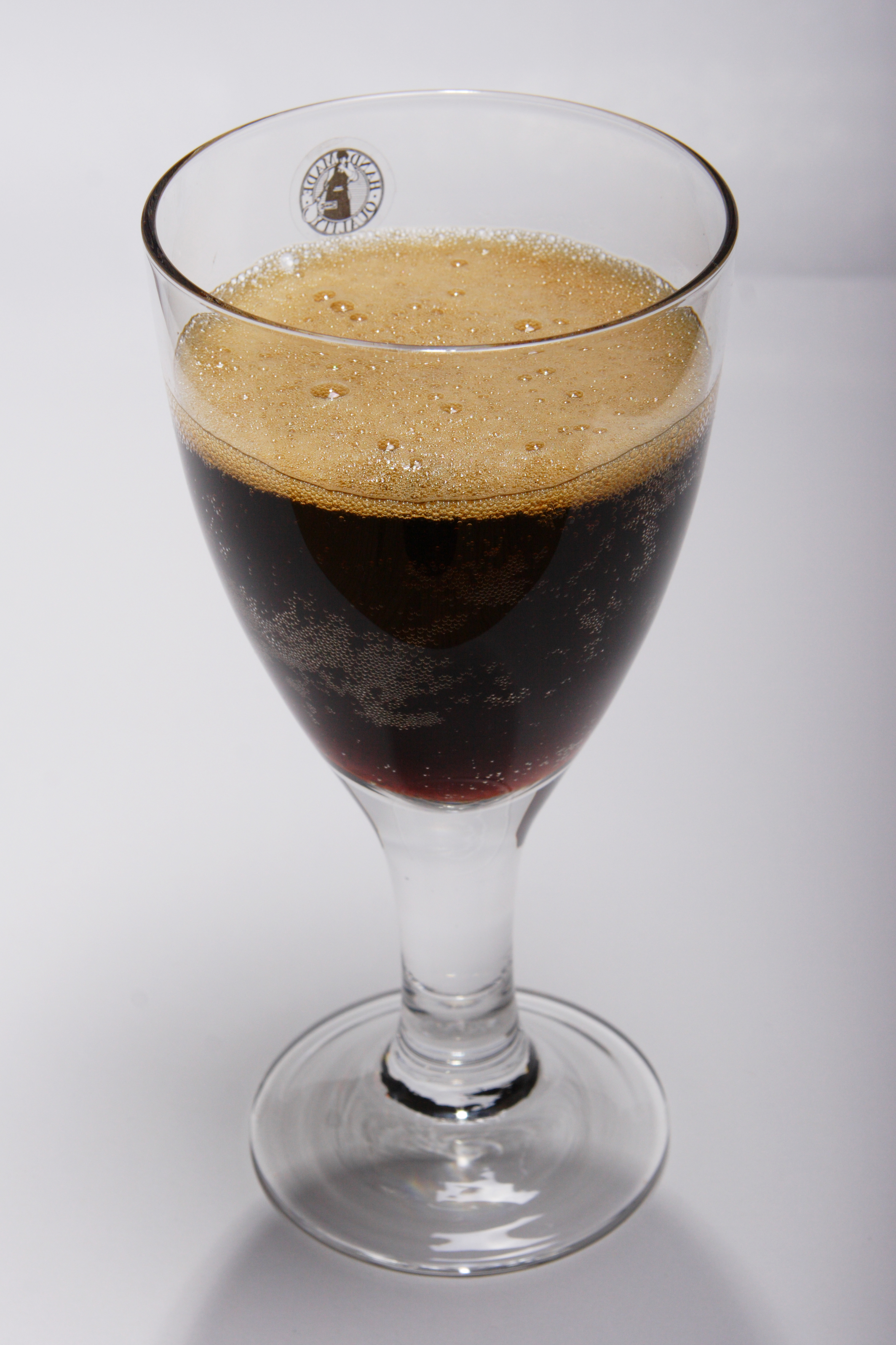 Glass of Swedish beverage must (julmust).